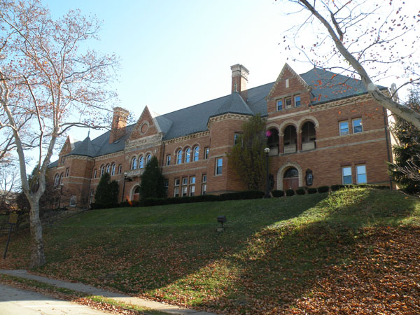 Picture of the Carnegie Library of Homestead, which is located at 510 East 10th Avenue in the Homestead Historic District in Munhall, Pennsylvania, on November 8, 2009. The library was built from 1896 to 1898. Architects: Alden and Harlow. The library was dedicated by Andrew Carnegie on November 5, 1898.